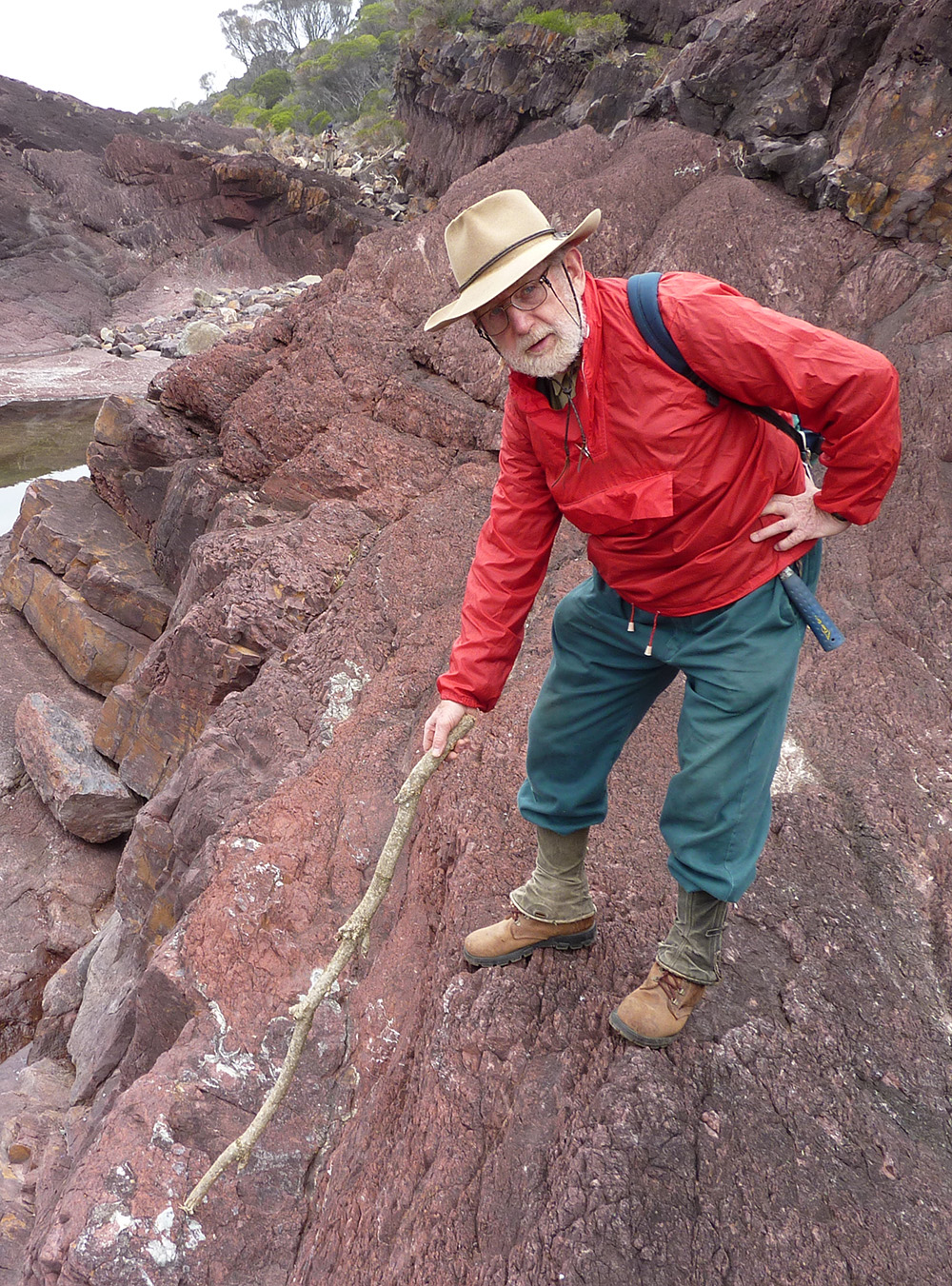 This location on the coast south of Eden NSW is close to where Edenopteron keithcrooki was discovered by a team of researchers headed by Dr Gavin Young in 2008. This new species was named in recognition of Keith's geological work in the area over the previous 47 years.